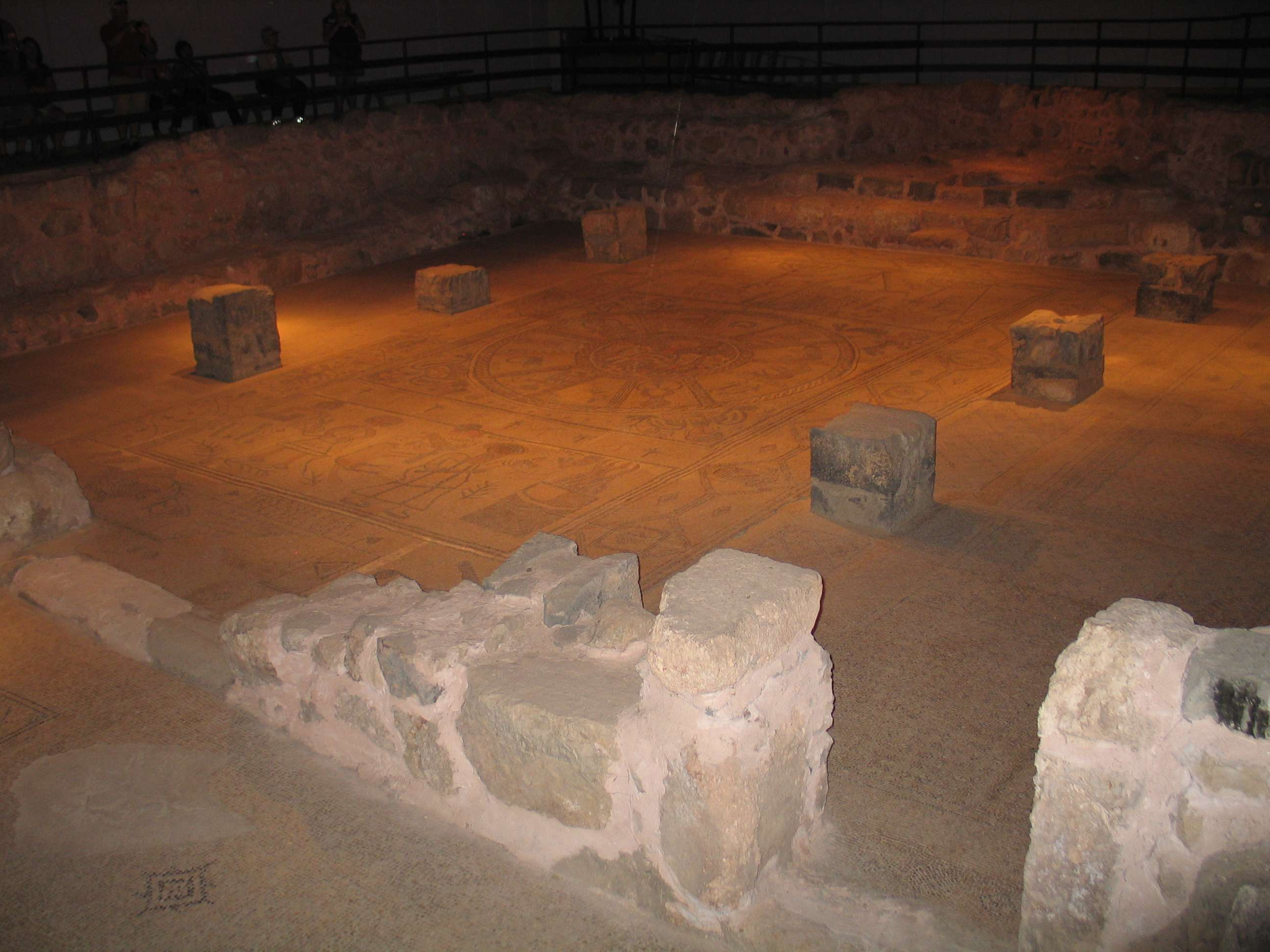 Beyt Alfa national park, Israel.